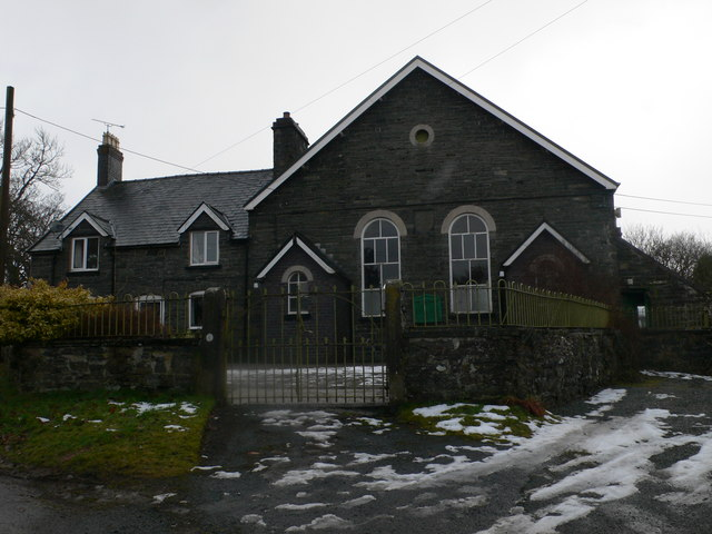 Groes Chapel